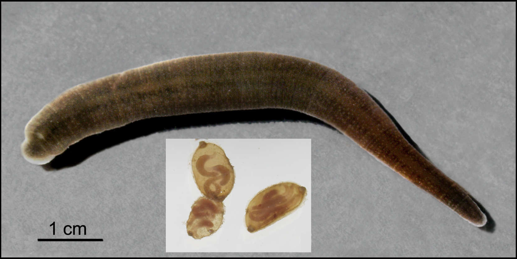 Trocheta intermedia